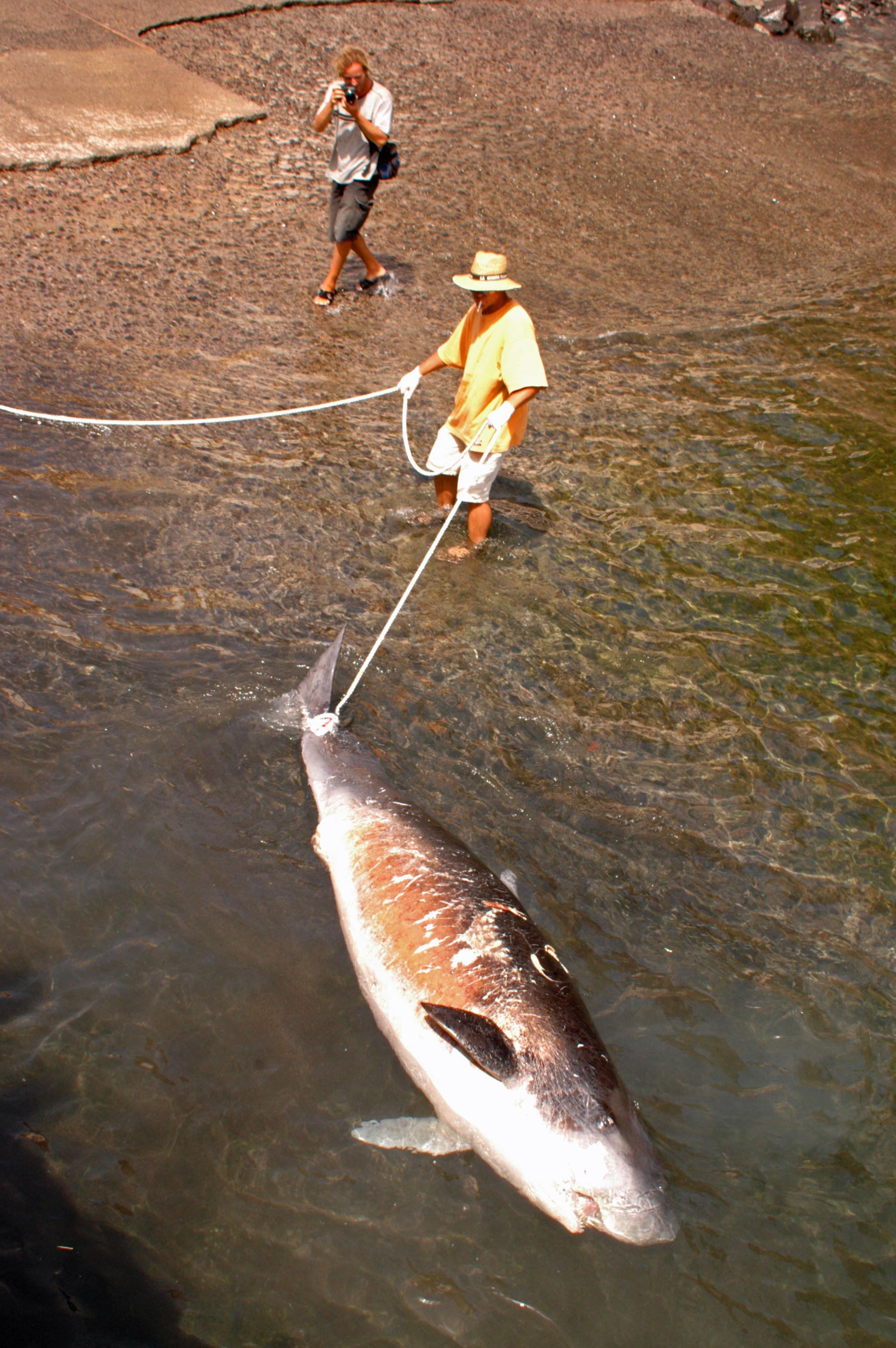 Pygmy sperm whale (dead)